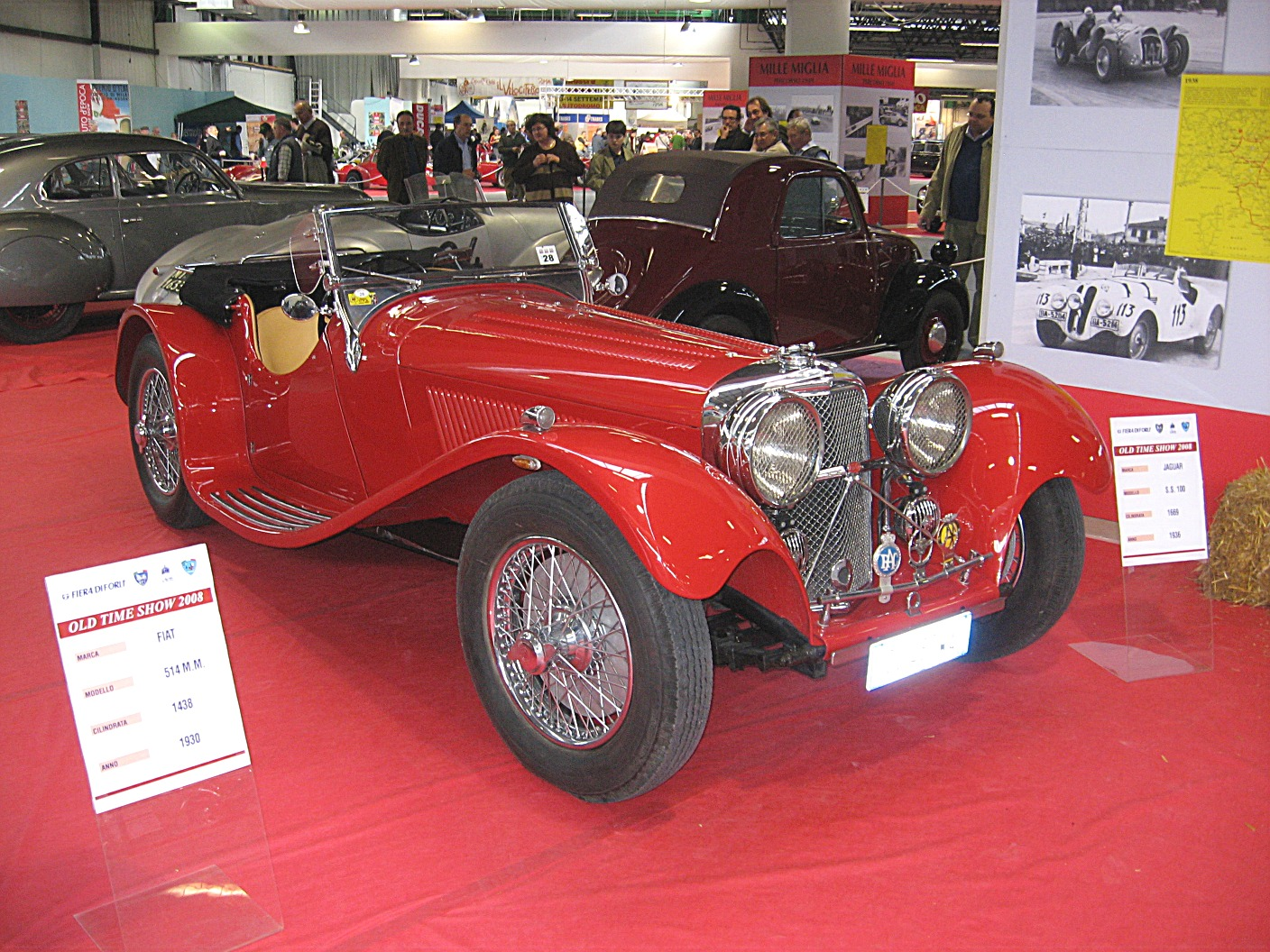 Subject: Jaguar SS100 Roadster Author:Luc106 Date:March 15th, 2007 Event:Old Timer Show 2008 Place/Country: Forlì, Italy I release all rights in the public domain.